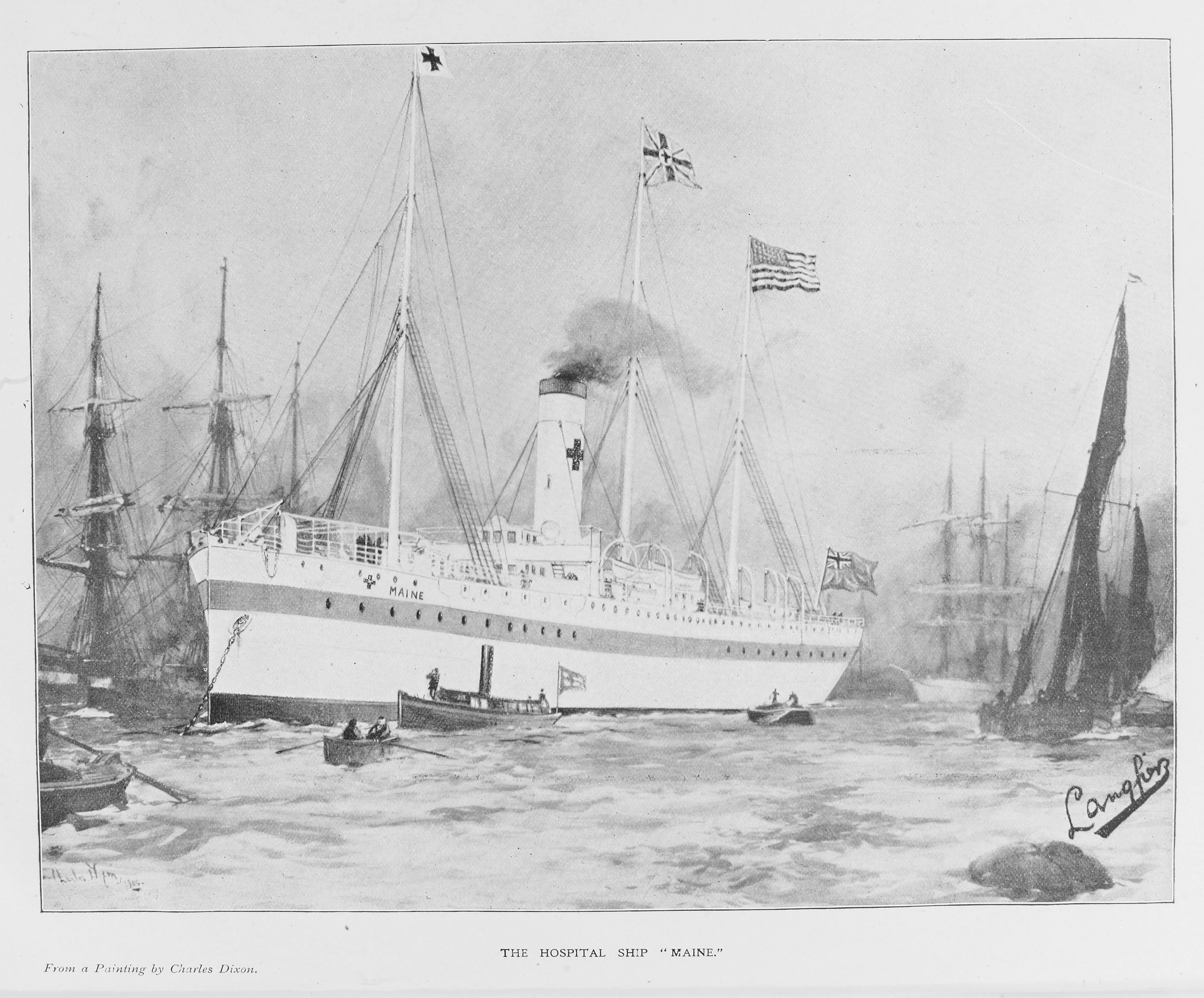 The Hospital Ship 'Maine' General Collections Keywords: Floating hospital; Ship; Ships; Charles Dixon